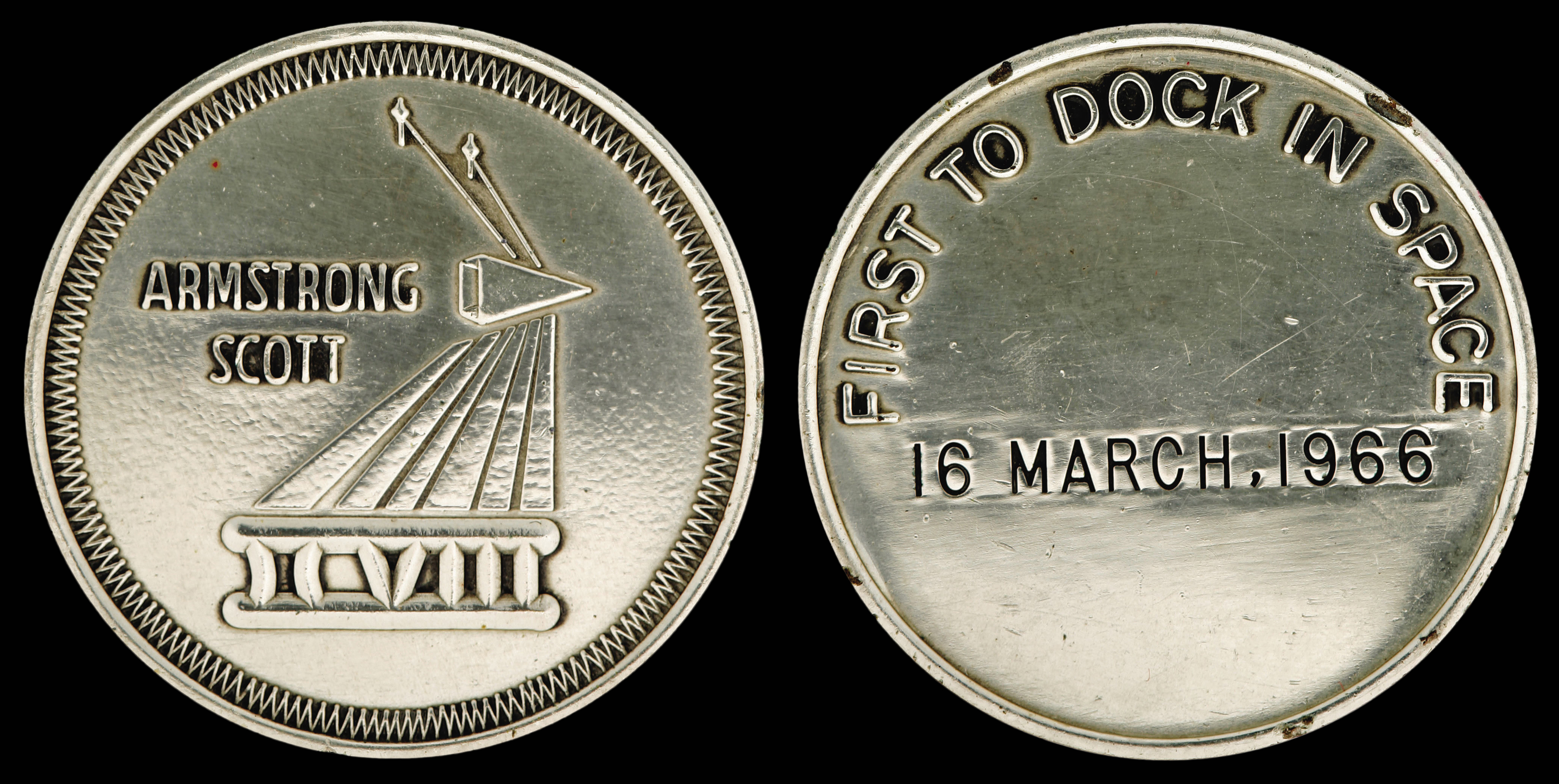 Gemini 8 Flown Fliteline Sterling Silver Medallion(669-25290)